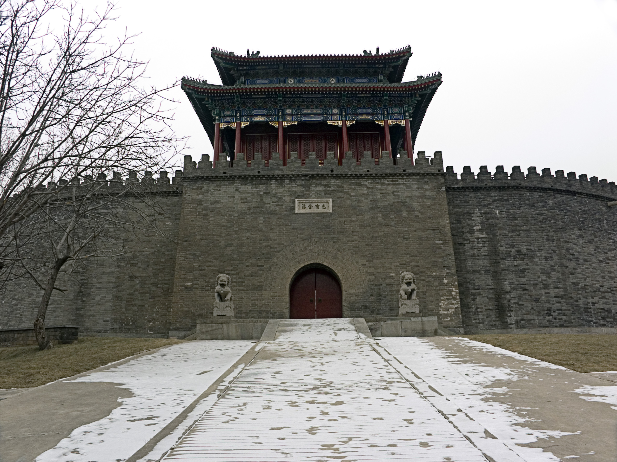 团城演武厅 The Tuancheng Yanwuting, or Tuan Cheng Fortress in Beijing, China